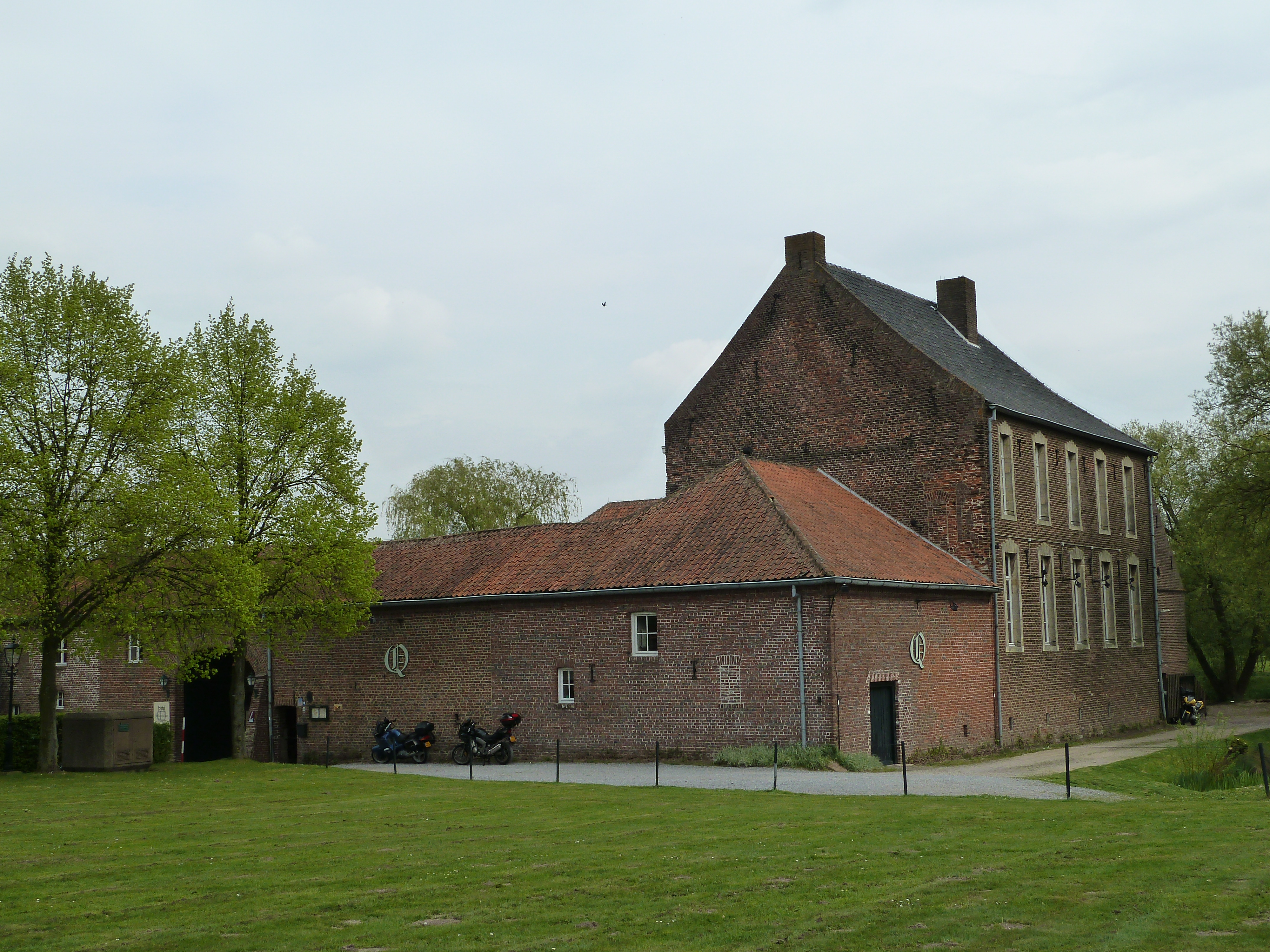 Brunssummerstraat 65, Schinveld, Limburg, the Netherlands